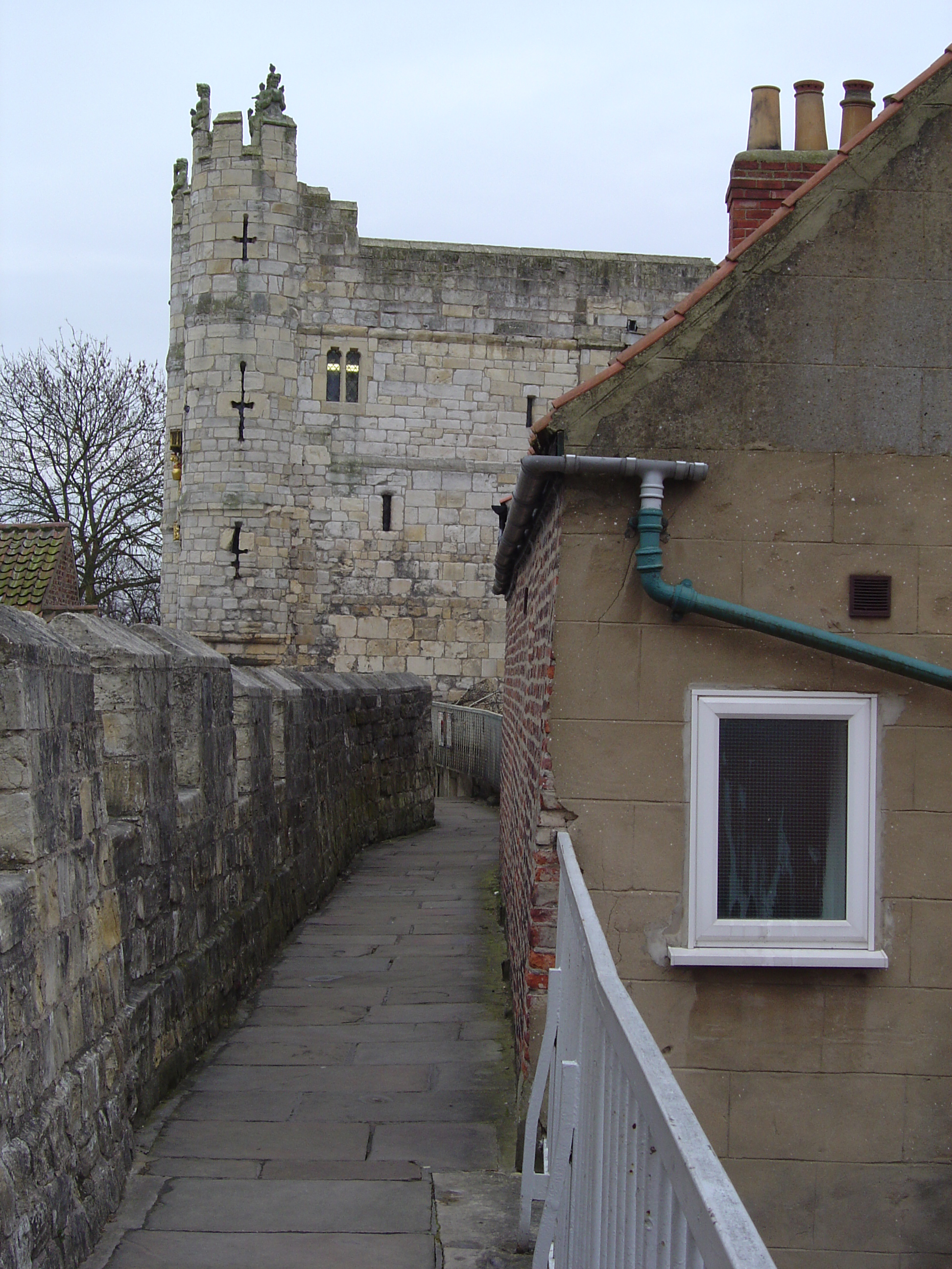 Wall-walk leading to Monk Bar. York Wall and Micklegate Bar.